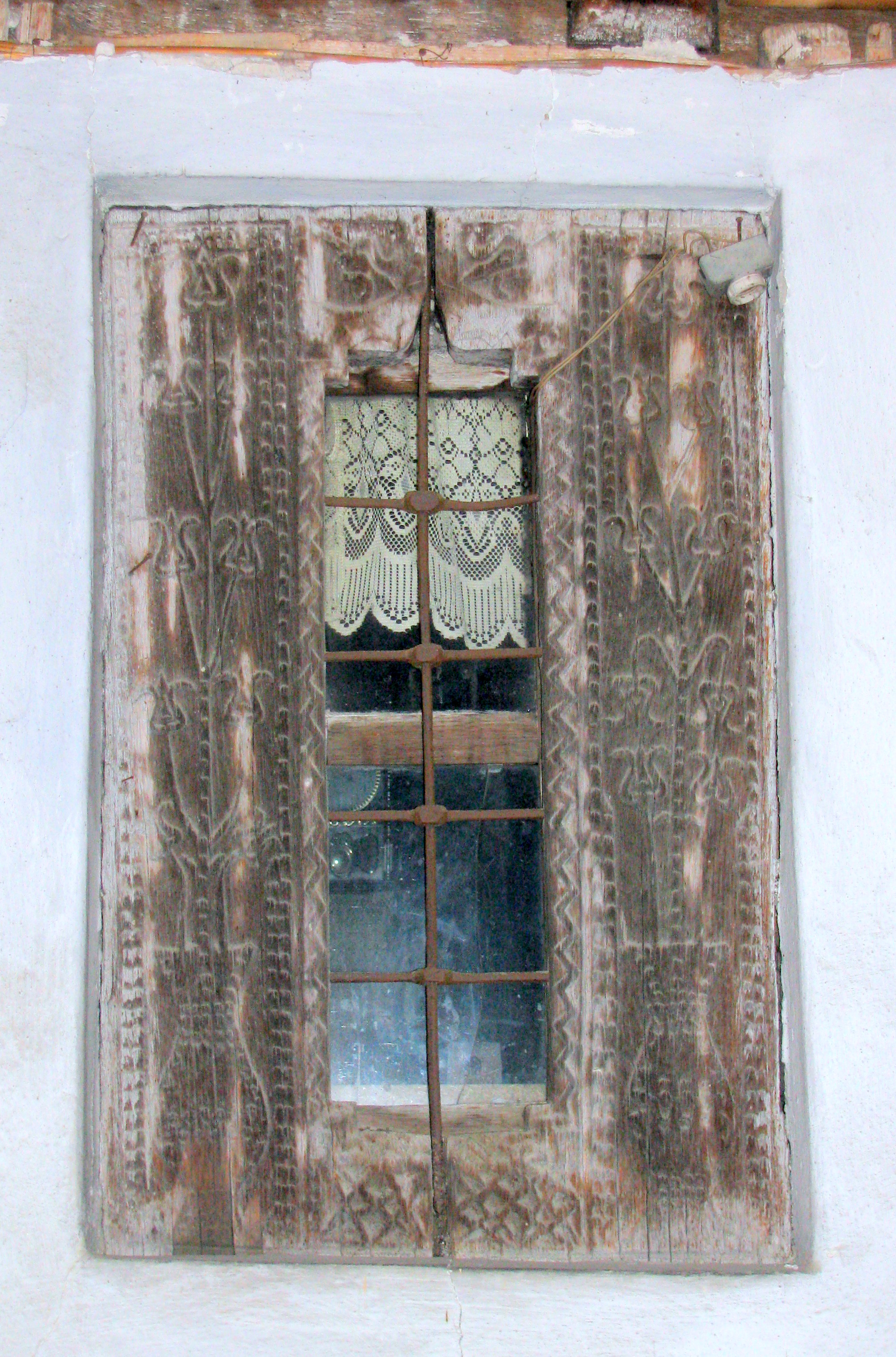 Wooden church in Bascov, Argeș County, Romania